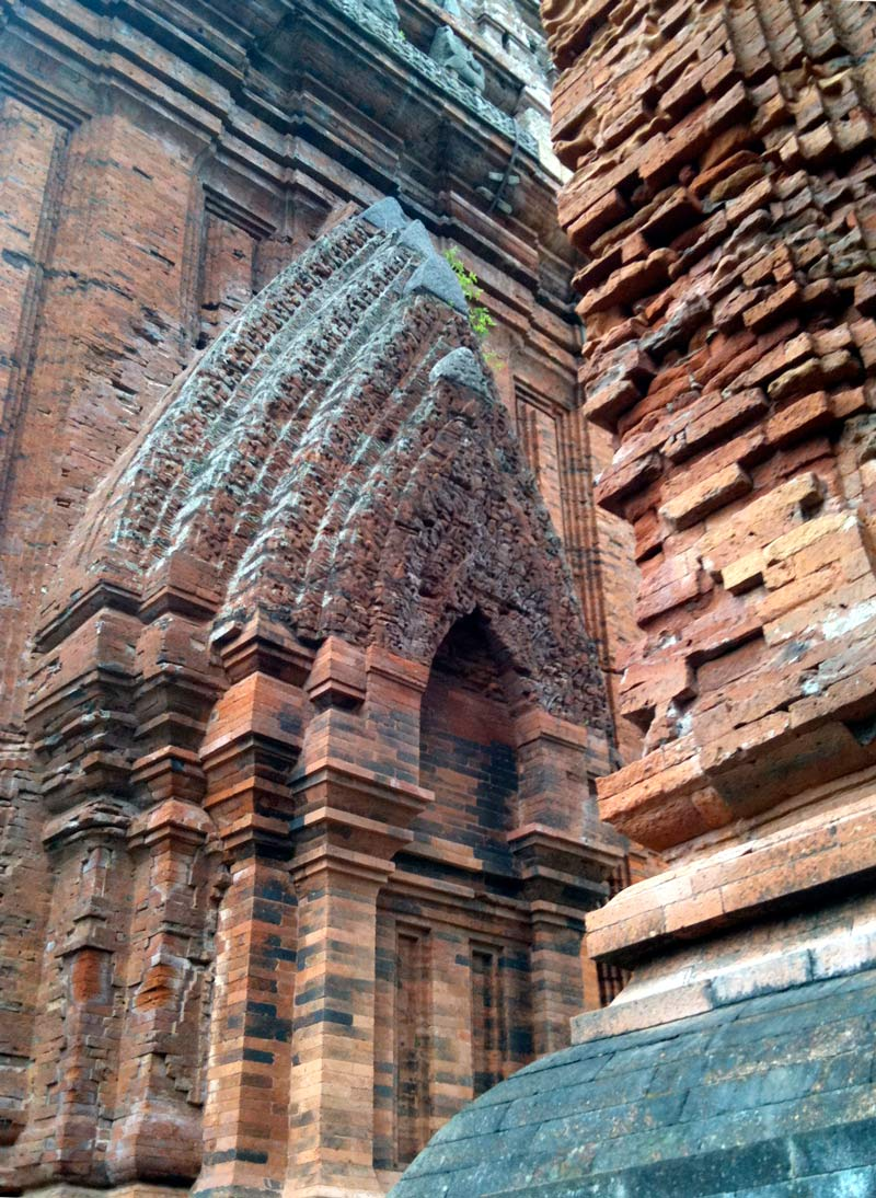 Tháp Đôi Cham Towers, Quy Nhơn